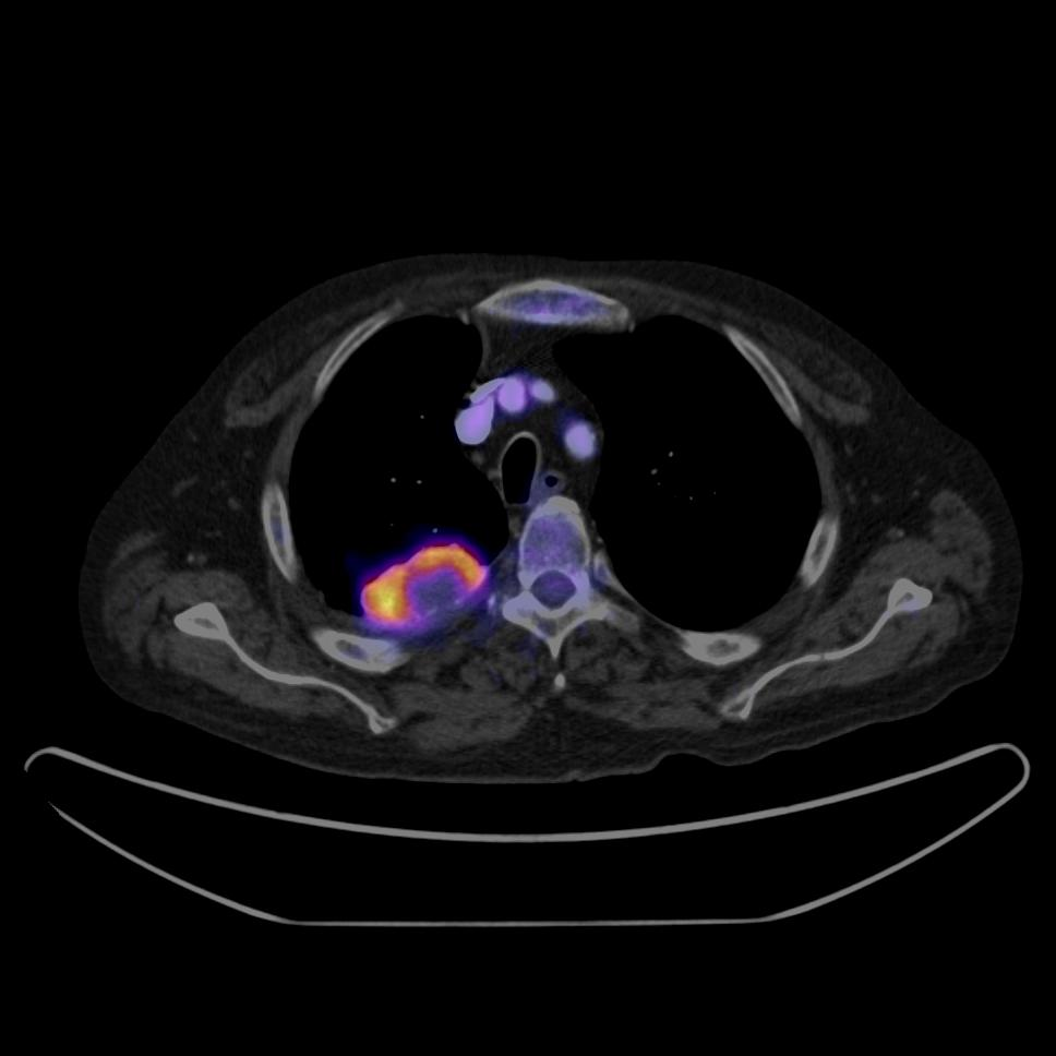 PET/CT image